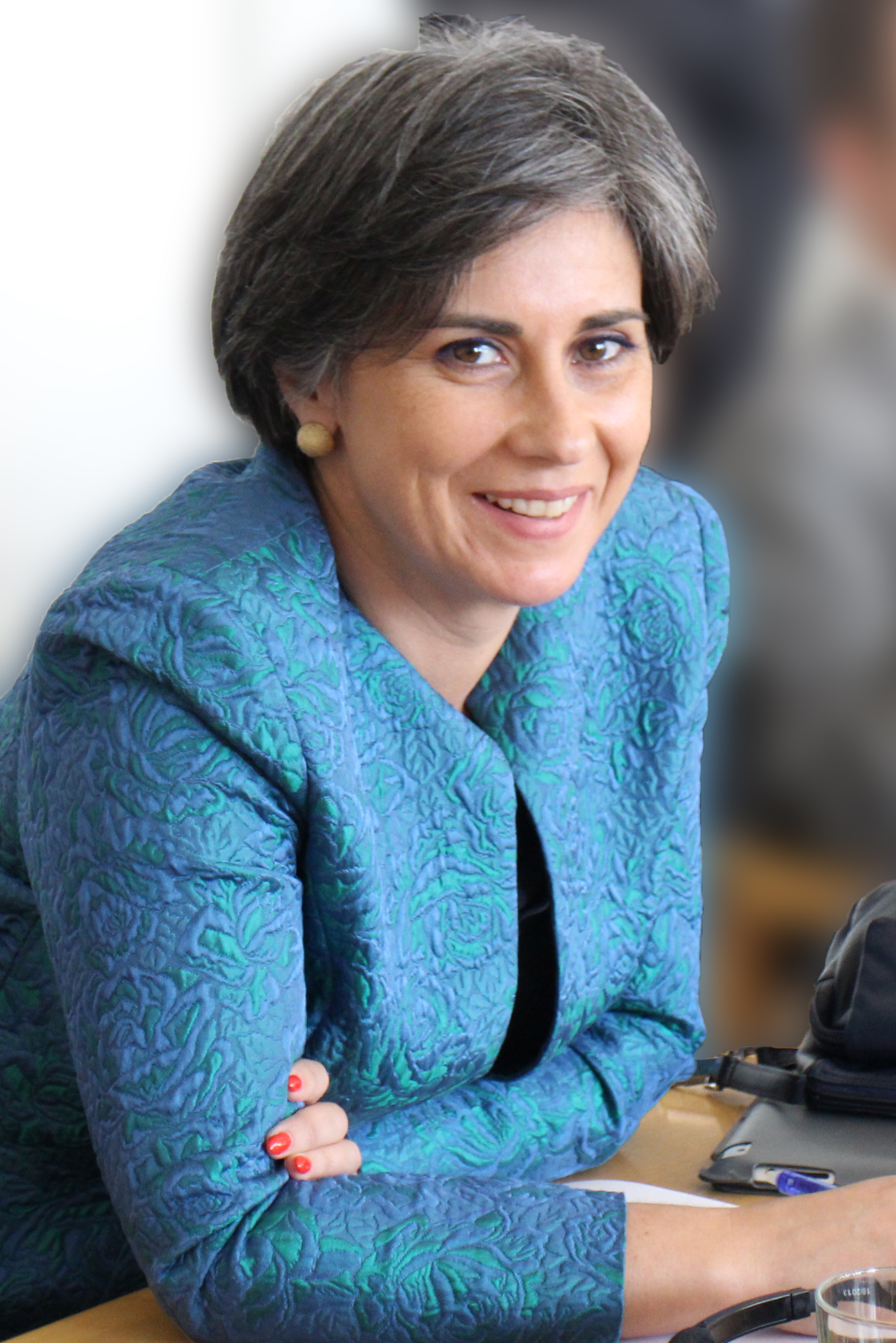 Isabel Santos (MP, Portugal), Chair of the OSCE PA's human rights committee, Copenhagen, 27 April 2015.